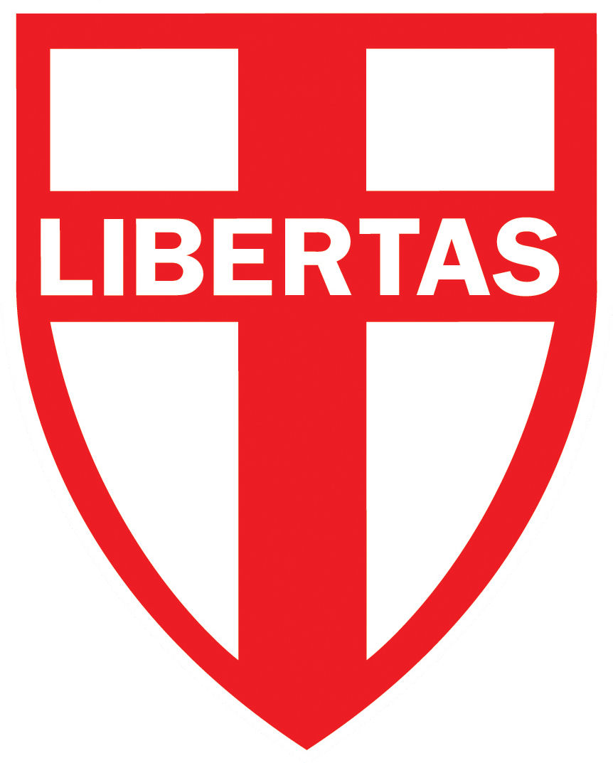 The Crusader Shield is the symbol of Italian Catholics involved in politics. was used for the first time with the Italian Popular Party (1919 - 1926) and subsequently with the Christian Democrats (1942 - 1994) and since 1995 has been adopted UDC (Union of Christian Democrats and Center)